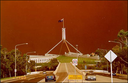 Blood red skies over Canberra - Photo of Parliament House during the 2003 Canberra Firestorm.